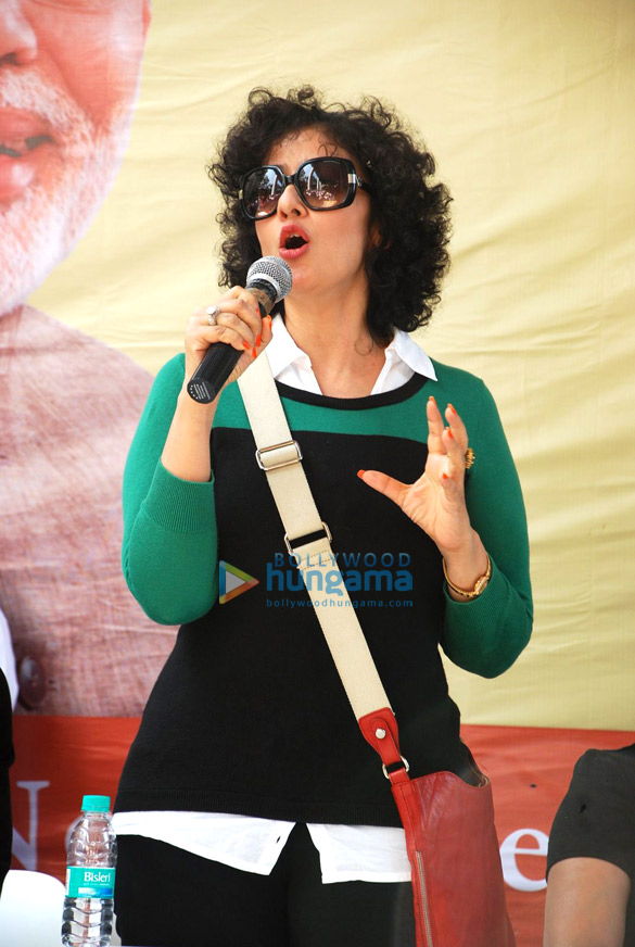 Manisha Koirala at Nahar Group's cleanliness drive